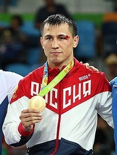 Rio 2016; Greco-Roman Wrestling 75 kg